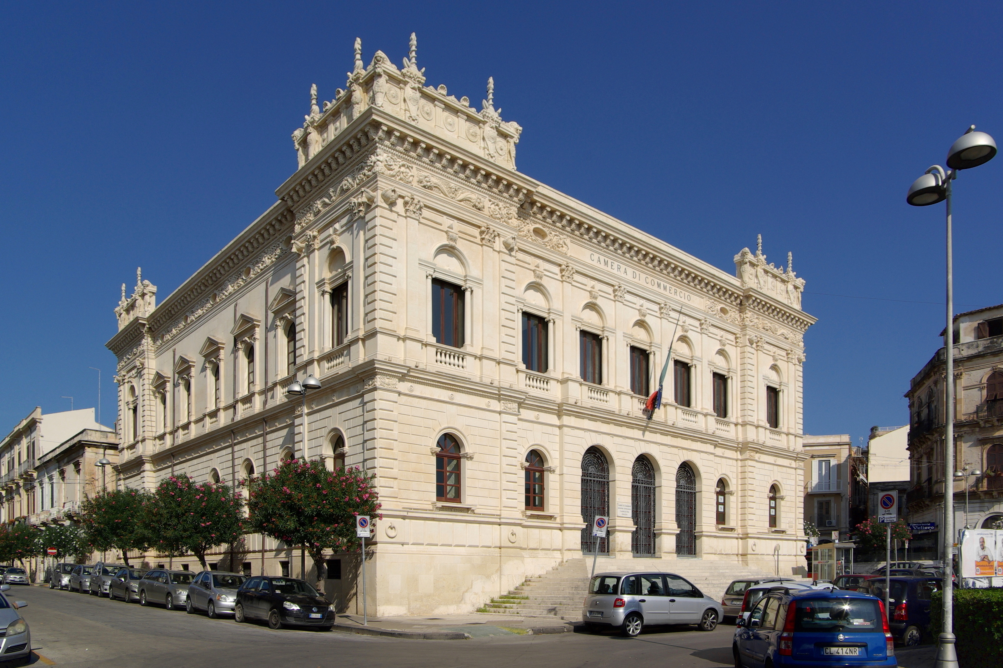 Italy, Sicily, Syracuse, Camera di Commercio